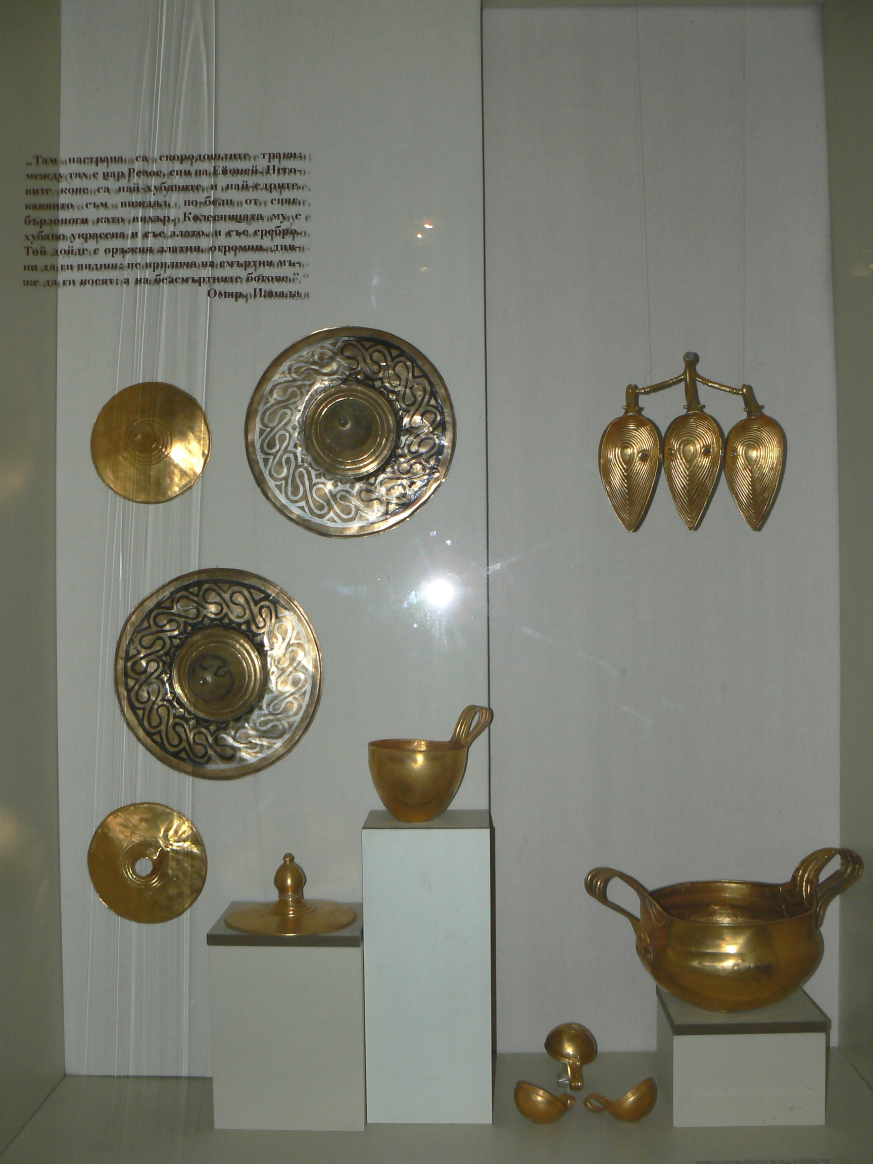 Duplicate of the Vuchitrun golden treasure, in the Regional history museum in Pleven, Bulgaria